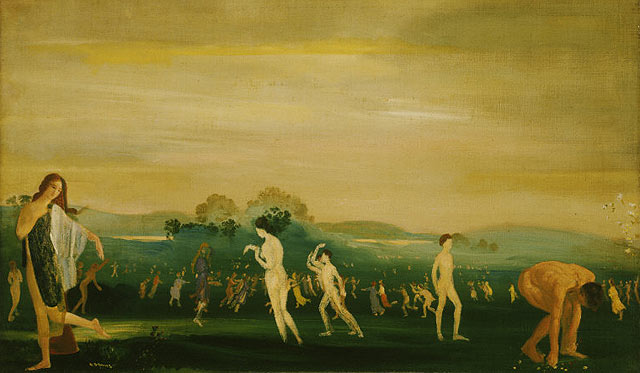 'Elysian Fields', undated oil on canvas painting by Arthur B. Davies, The Phillips Collection (Washington, D. C.)